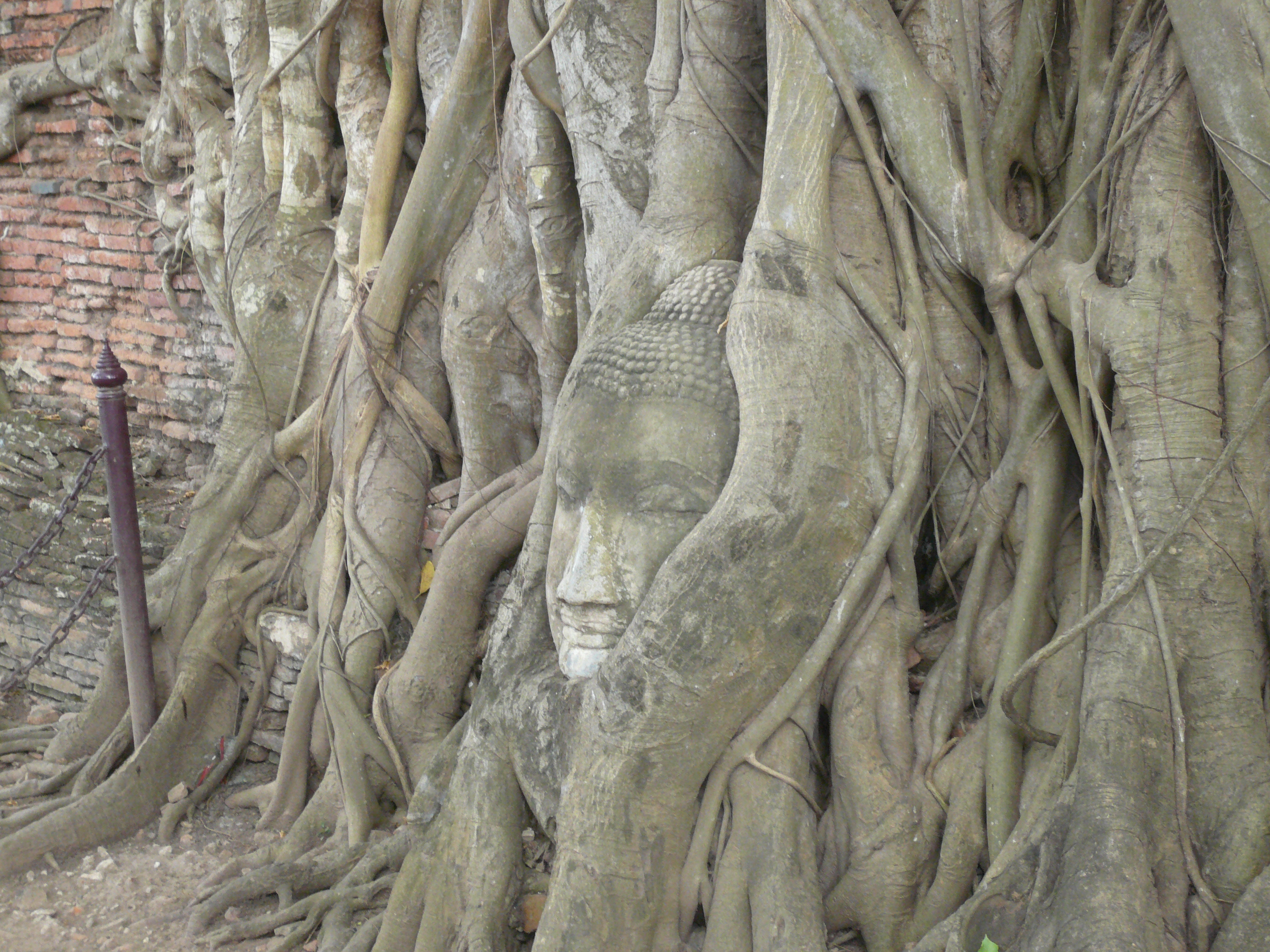 Historic City of Ayutthaya (Thailand)